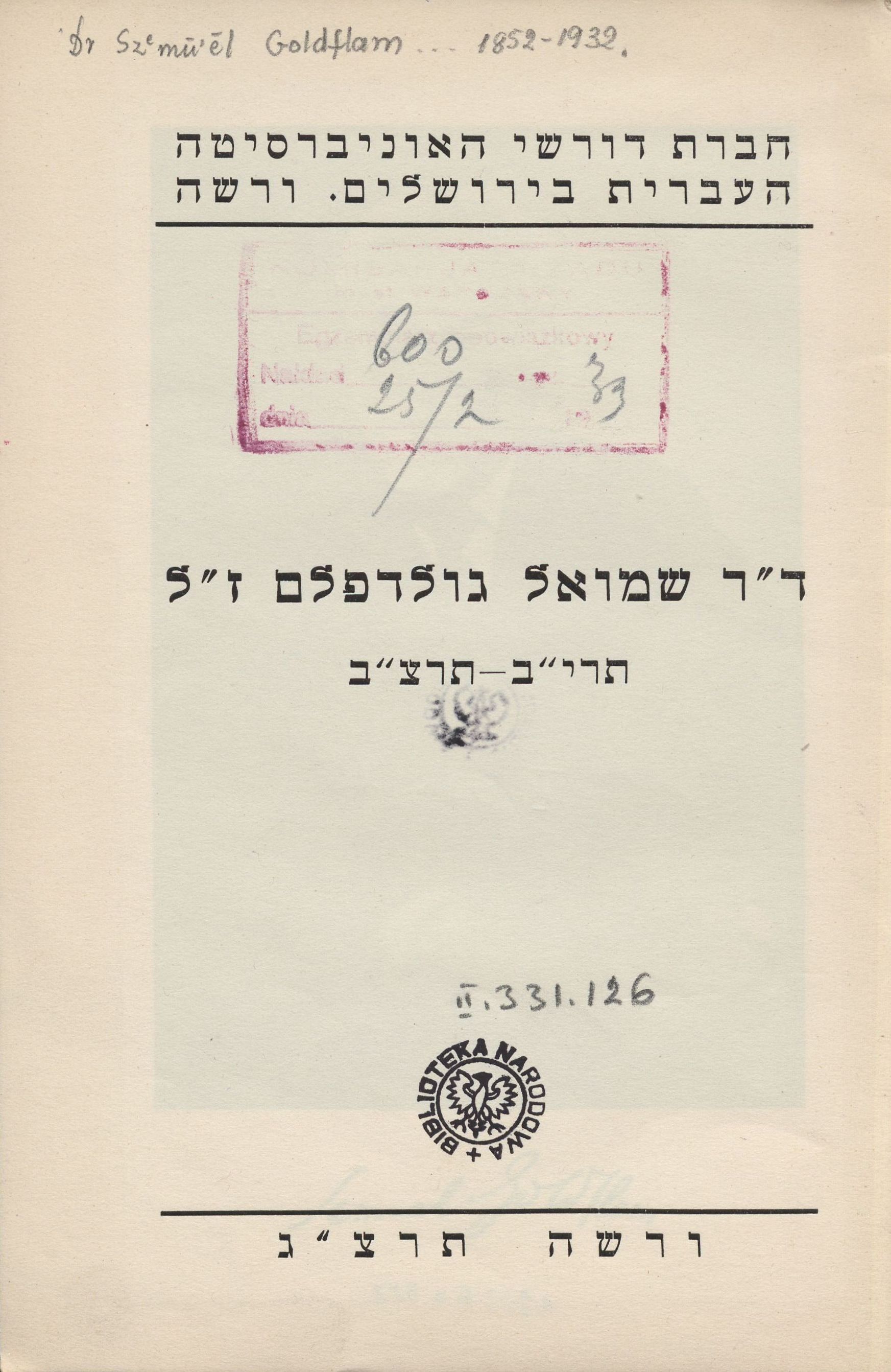 Title page of a commemorative publication for Samuel Goldflam, Polish neurologist